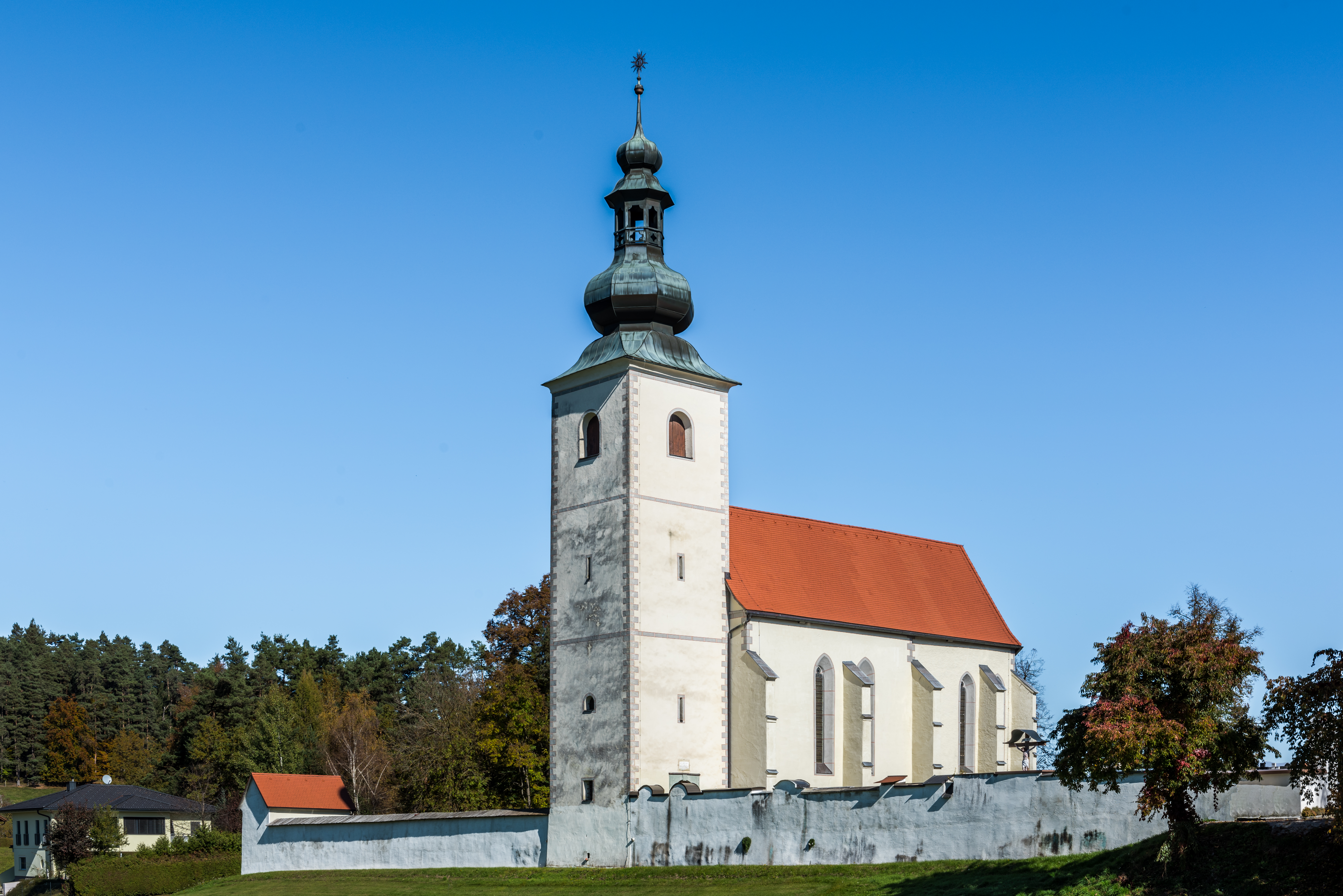 Subsidiary church Our Lady on Kreuzberglweg #25, market town Eberndorf, district Völkermarkt, Carinthia, Austria, EU